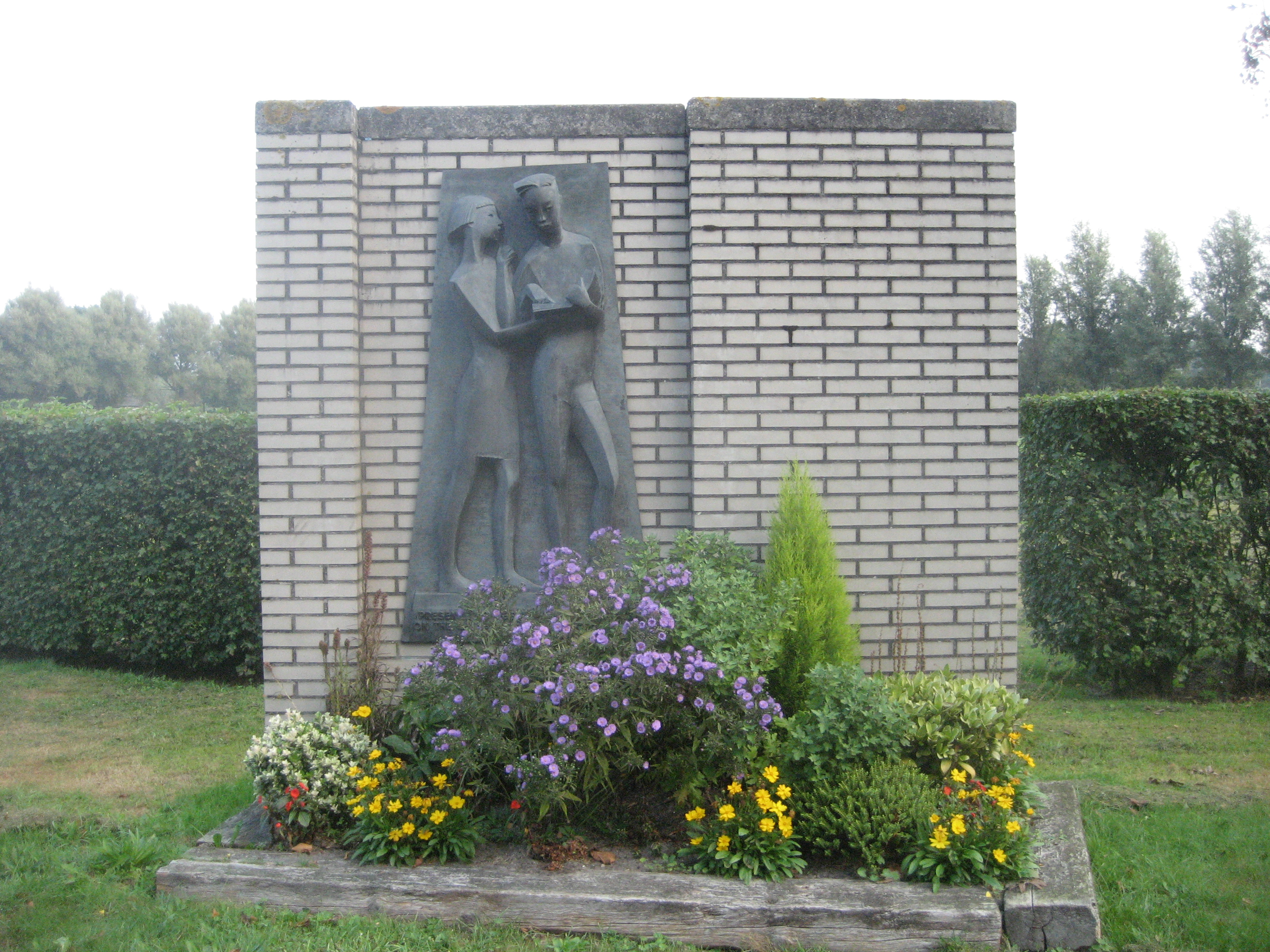 Monument near American School of the Netherlands, Wassenaar (2016). Text reads: Presented by Esso Nederland BV. On the occasion of its centennial, 1891-1991